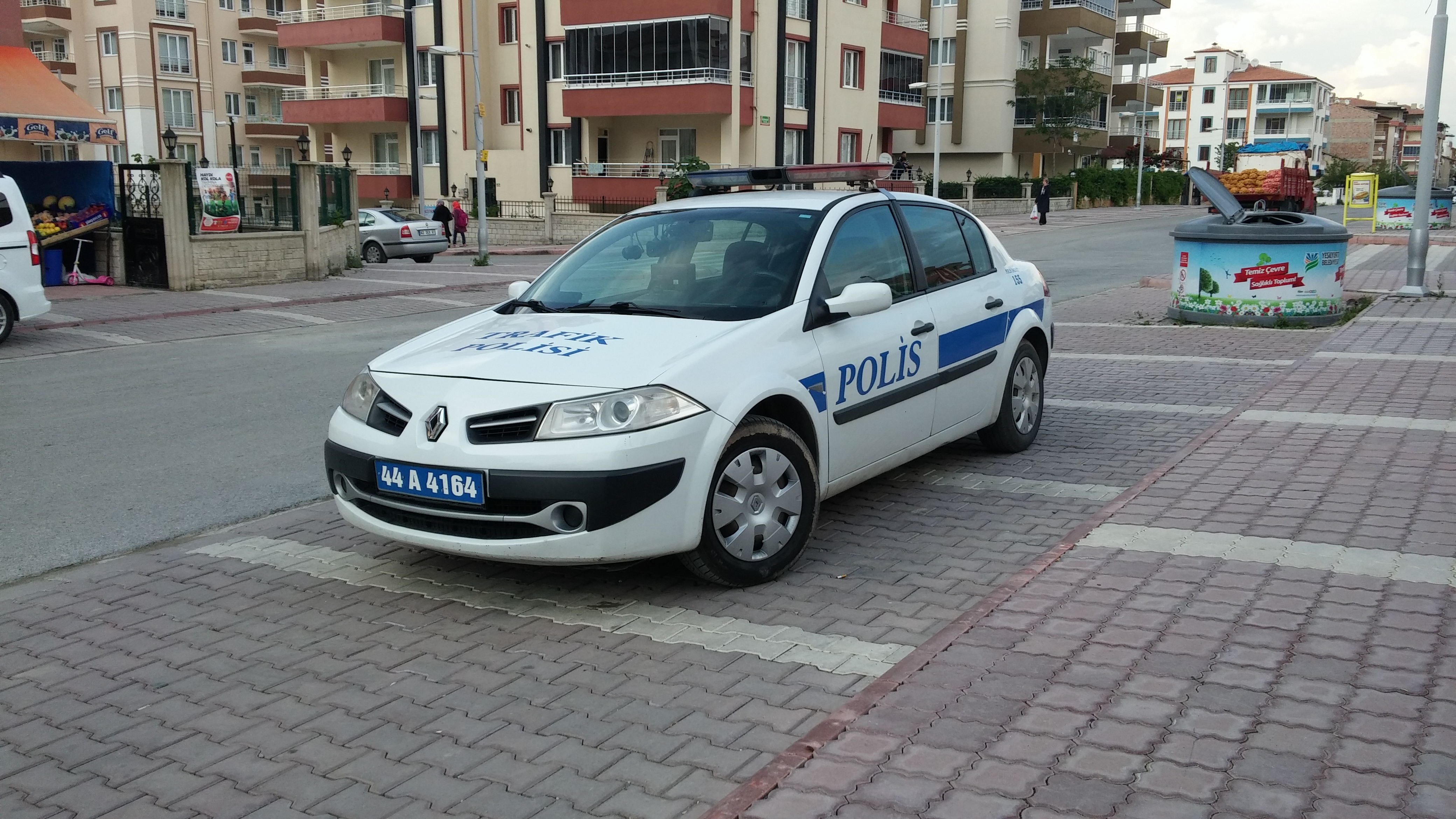 An old makeup Renault Megane police car of the General Directorate of Security of Turkey.